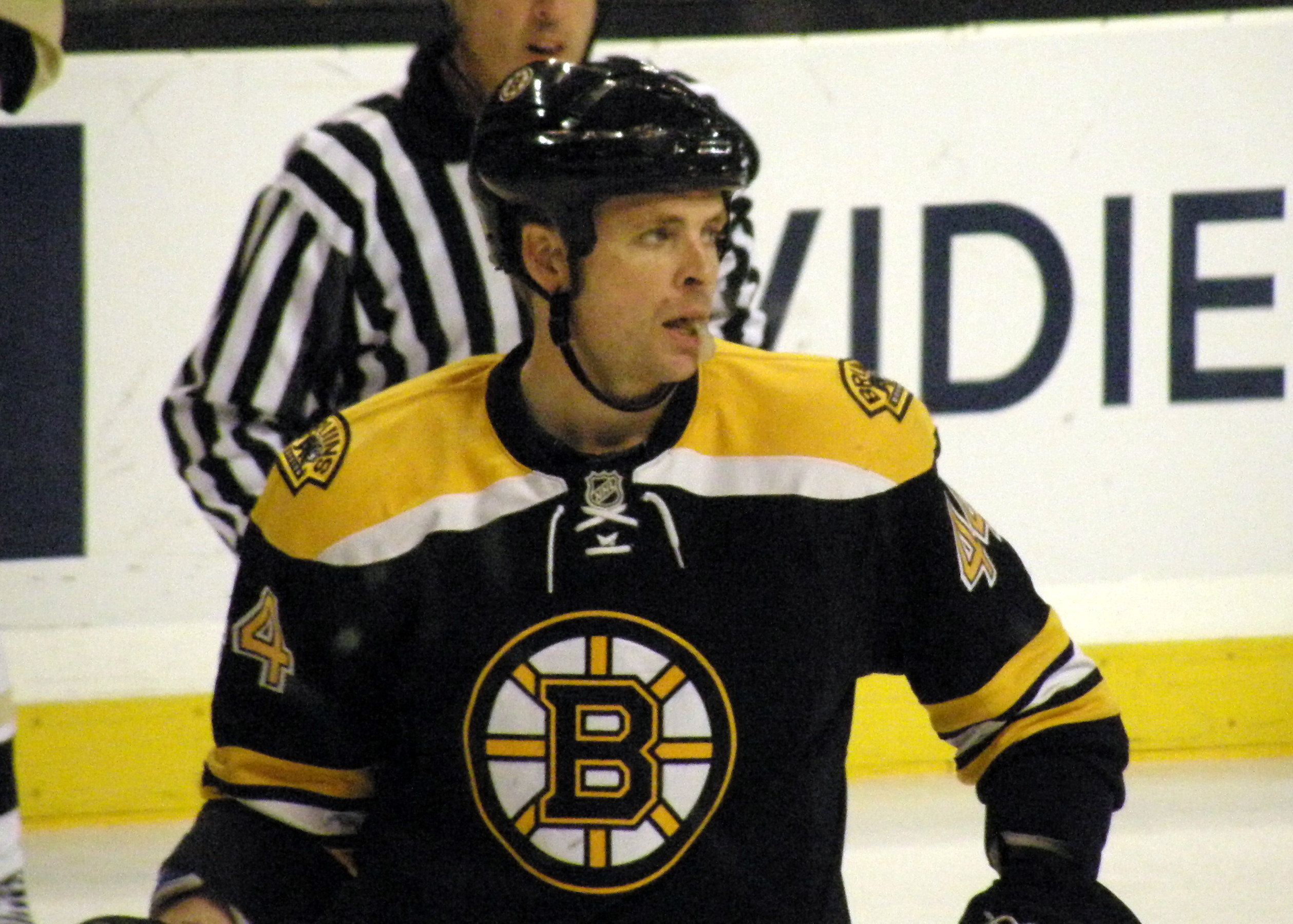 #44 Aaron Ward (D) Someday, I will get a shot of him without his mouth guard hanging out...